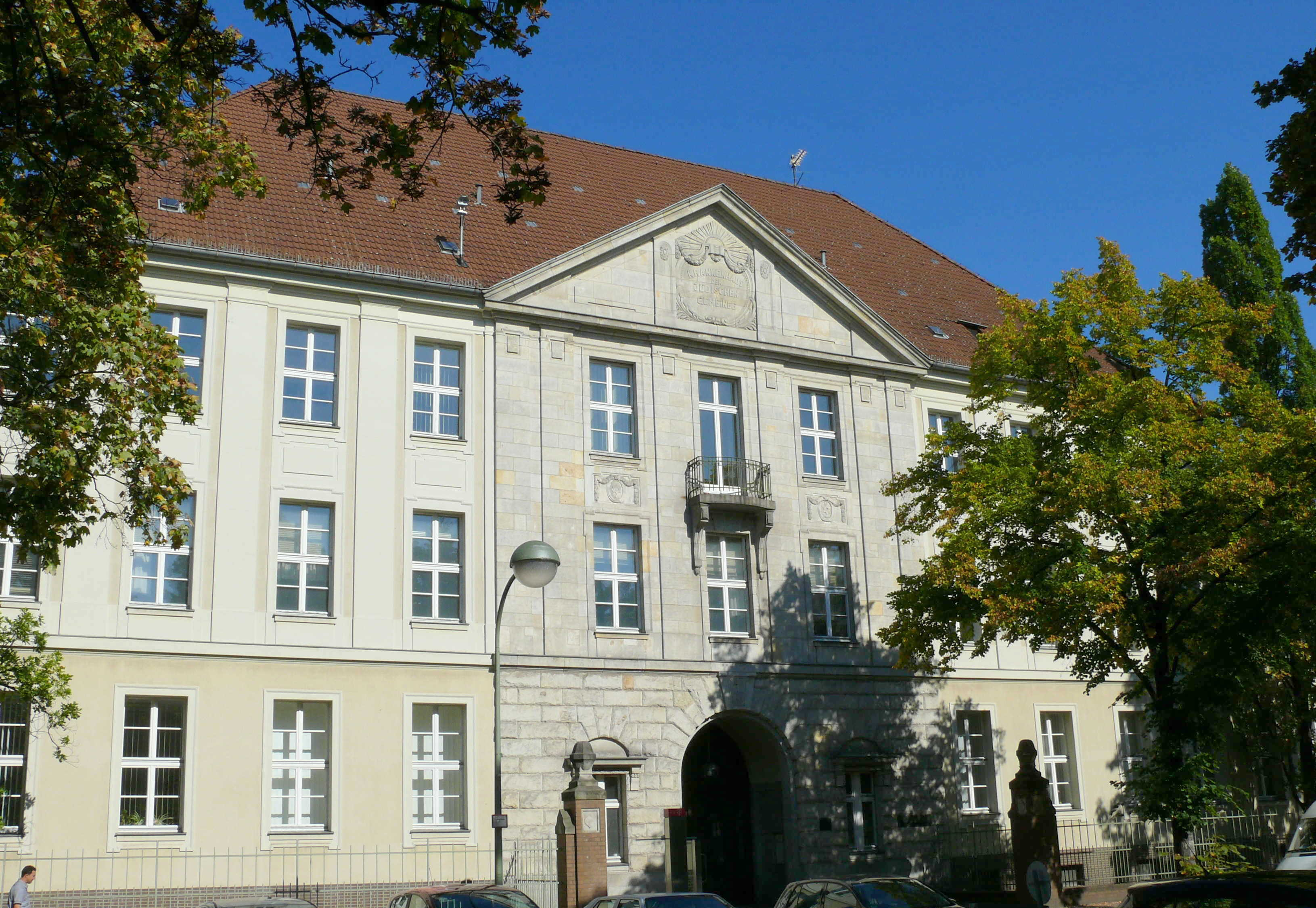 Gesundbrunnen Iranische Straße Jüdisches Krankenhaus